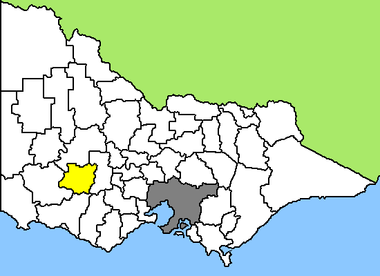 Map of Victoria/Australia, LGA of the Rural City of Ararat highlighted